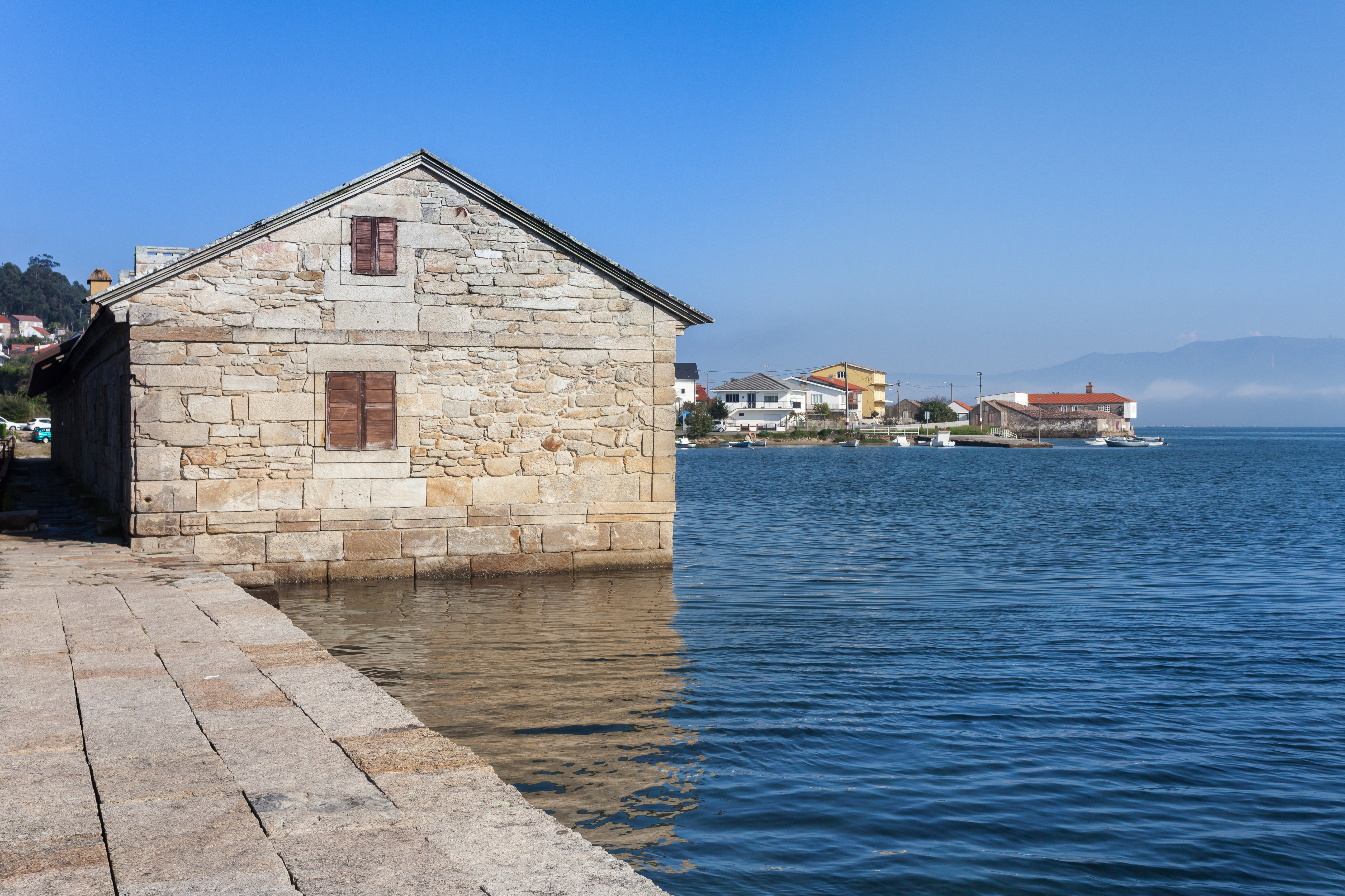 Tide mill of O Pozo do Cachón, Serres, Muros, Galicia (Spain).